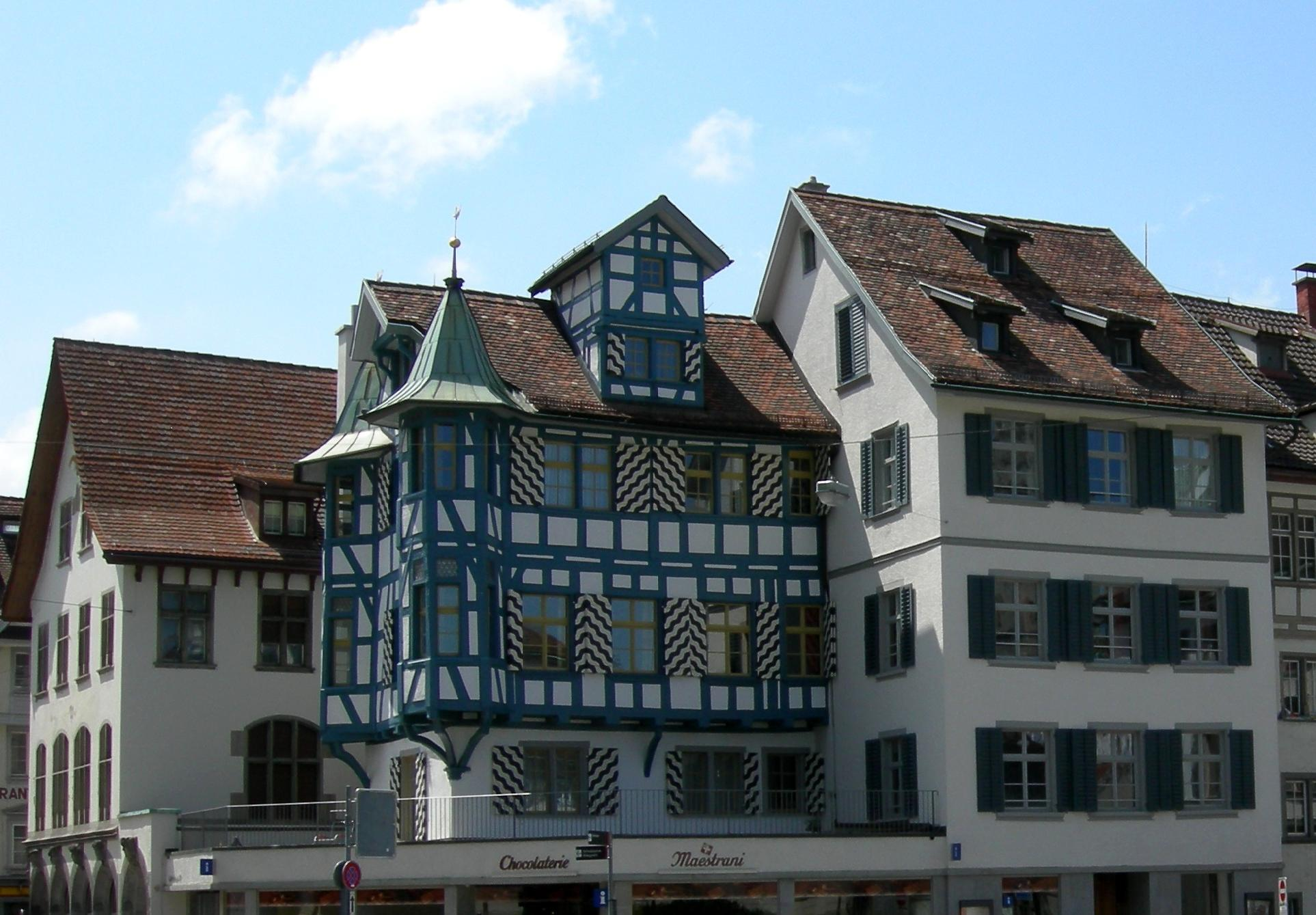 Old houses in Sankt Gallen